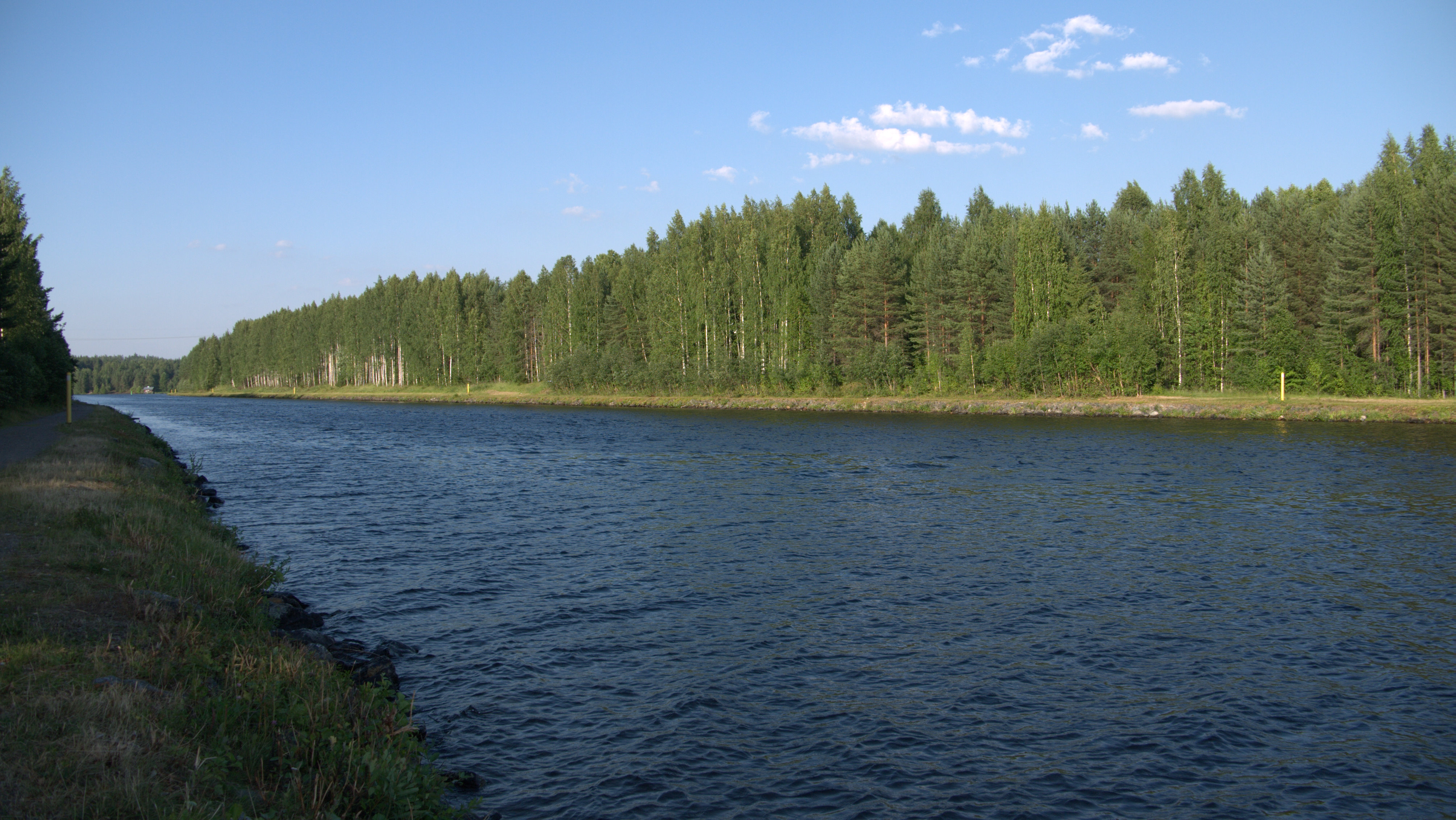 Pussilantaipale in Varkaus